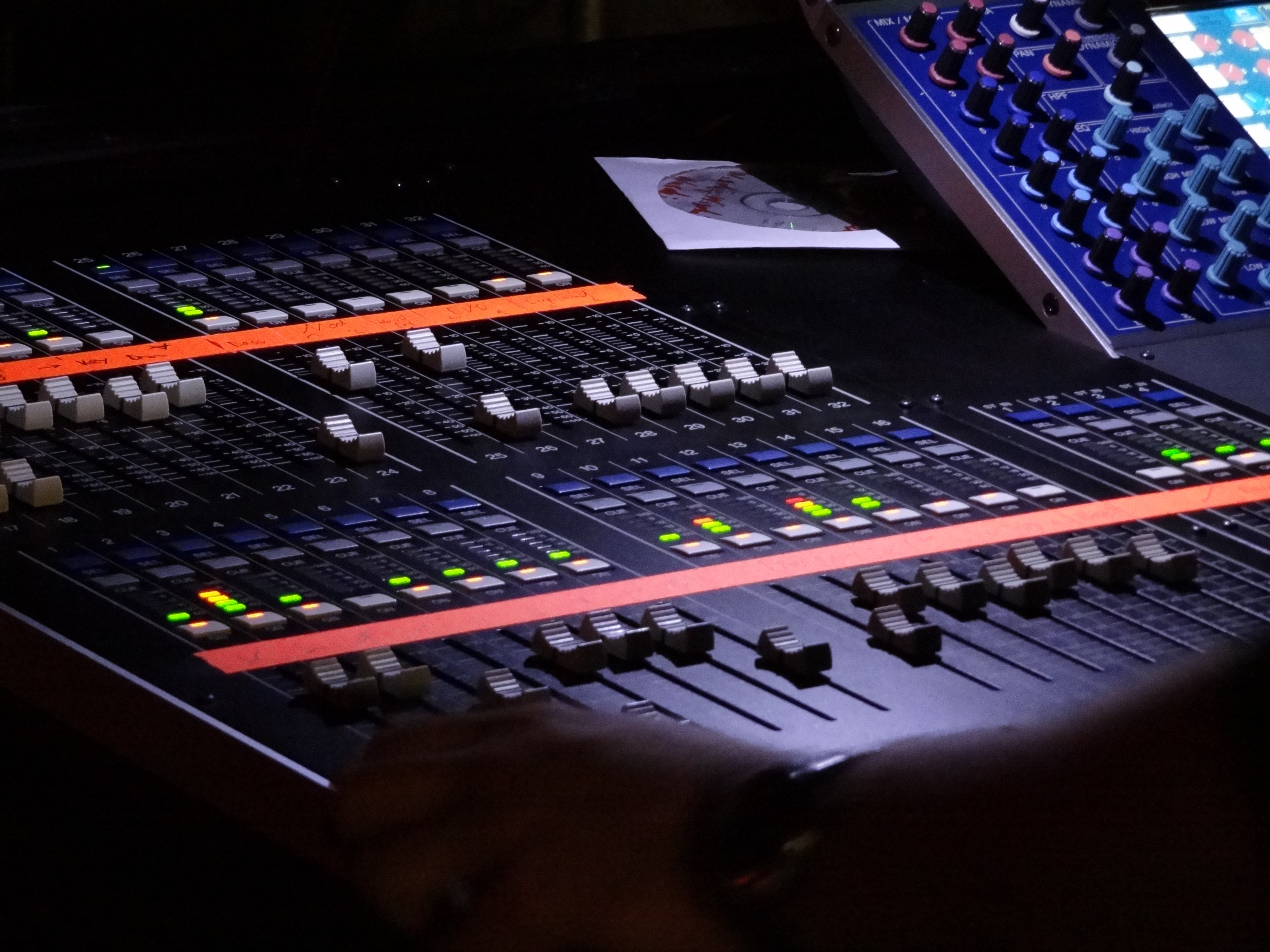 Yamaha M7CL digital live-sound mixing console - left half angled